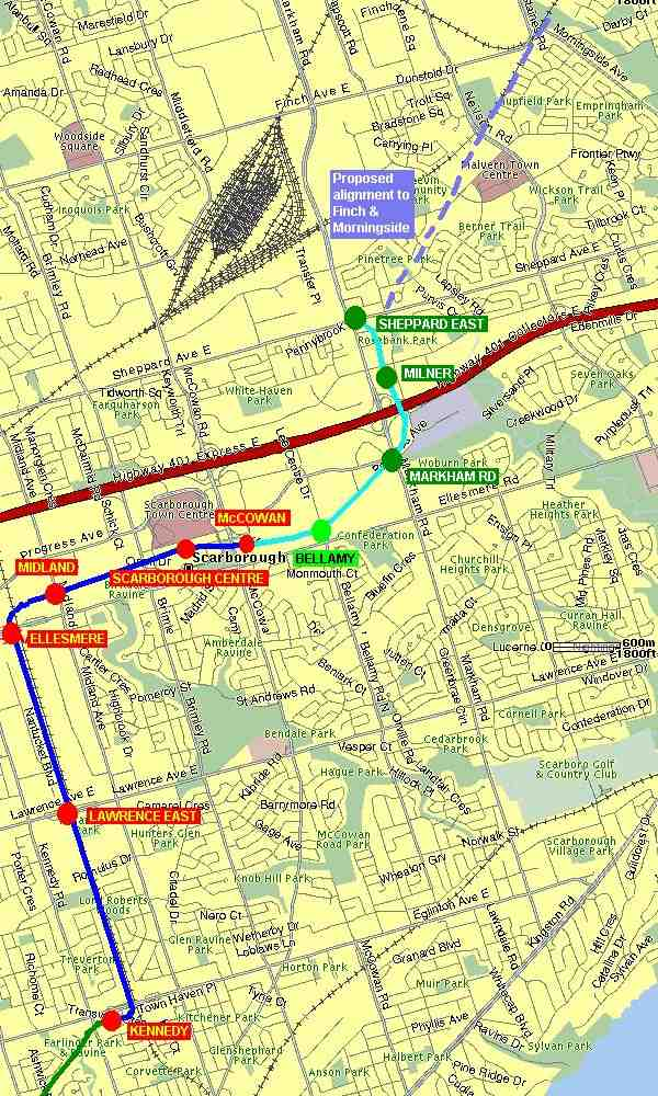 Original proposed routing of the Scarborough RT line. New efforts to revitalize and expand the current route in 2008 may have the line reaching Malvern Town Centre.